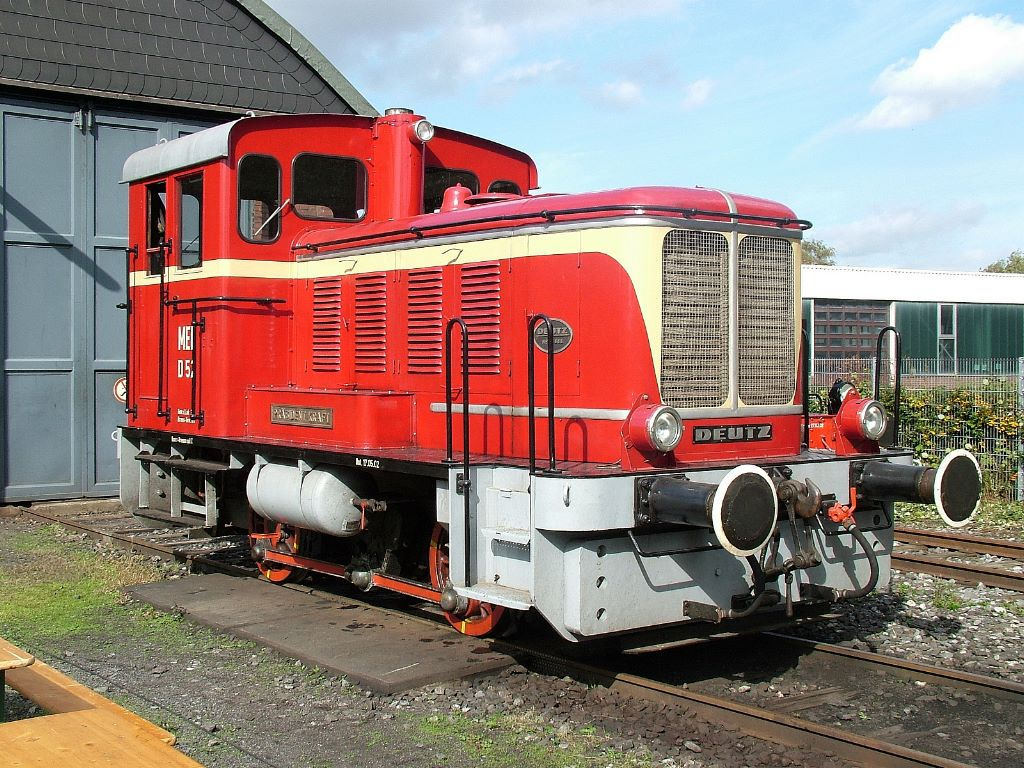 Historic diesel engine D 52 of the Ruhr-Lippe railways, restored to working order by a museum railway in Hamm, Germany